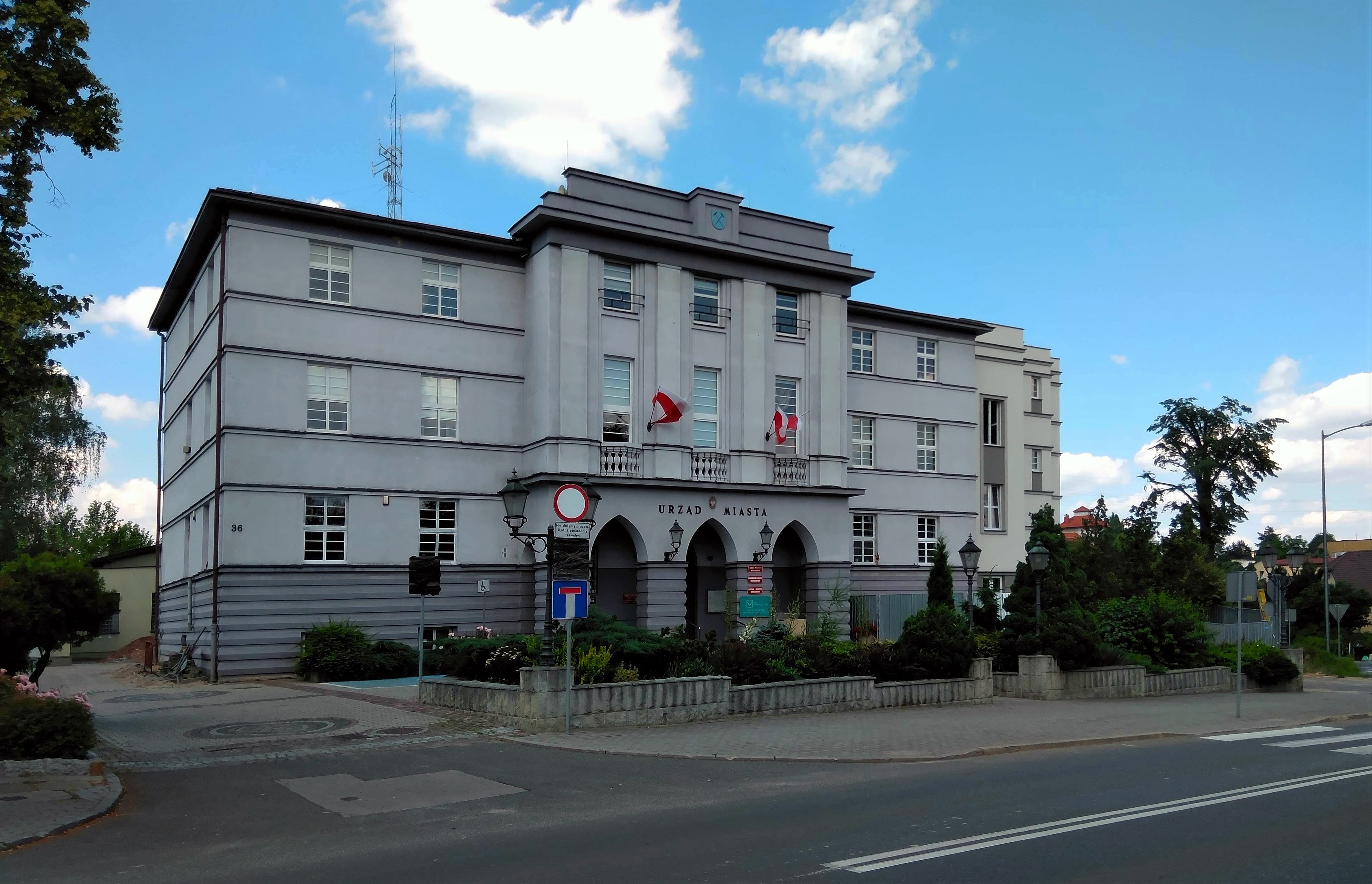 Town hall of Rydułtowy, Upper Silesia, Poland